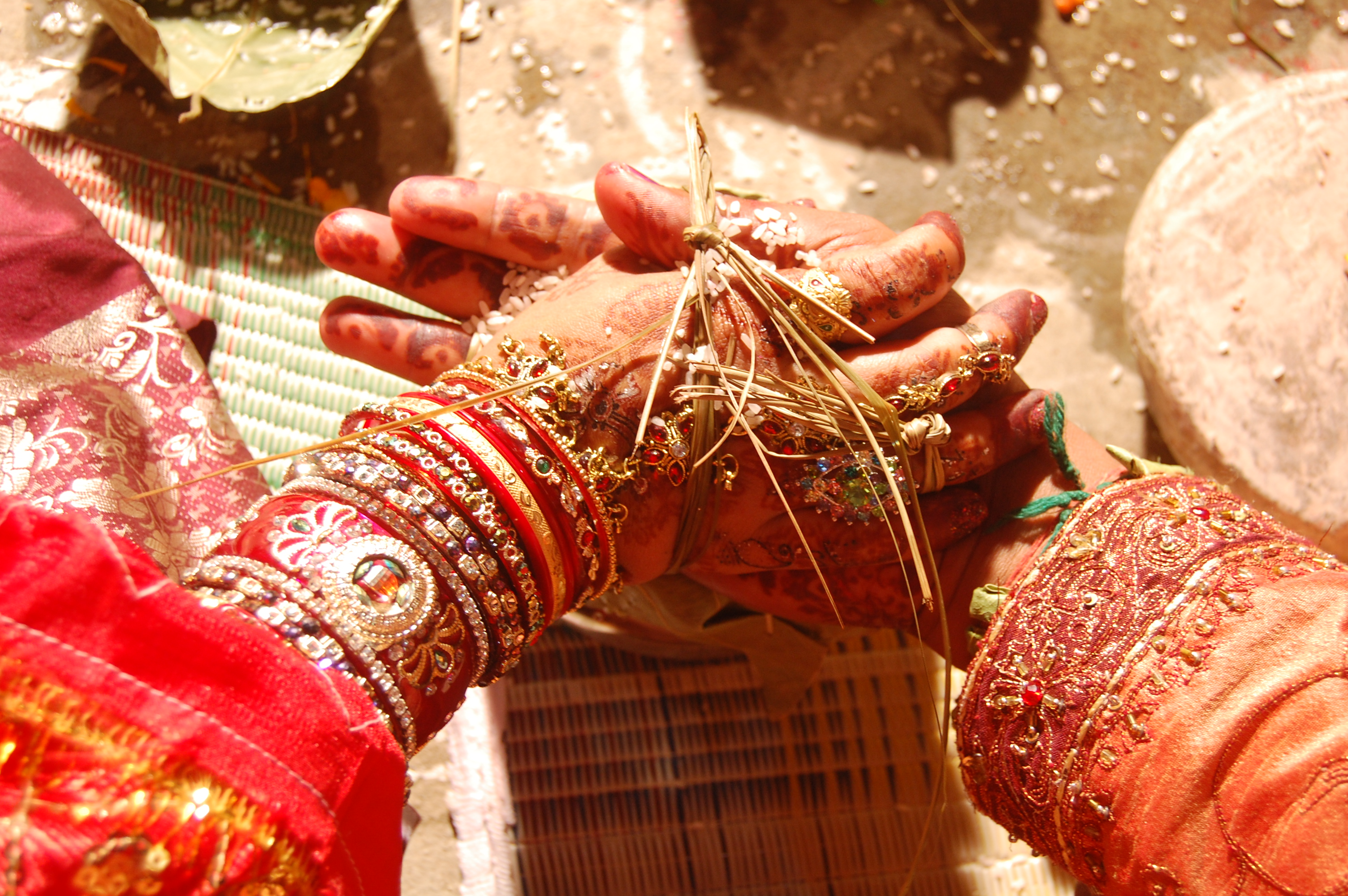 Hataganthi during Odia wedding